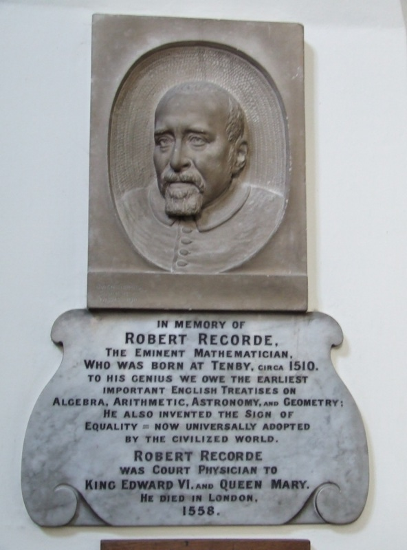 Wall tablet in memory of Robert Recorde in St Mary's Church, Tenby. This dashing fellow invented the equals sign.